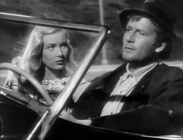 Cropped screenshot of Veronica Lake and Joel McCrea from Sullivan's Travels.